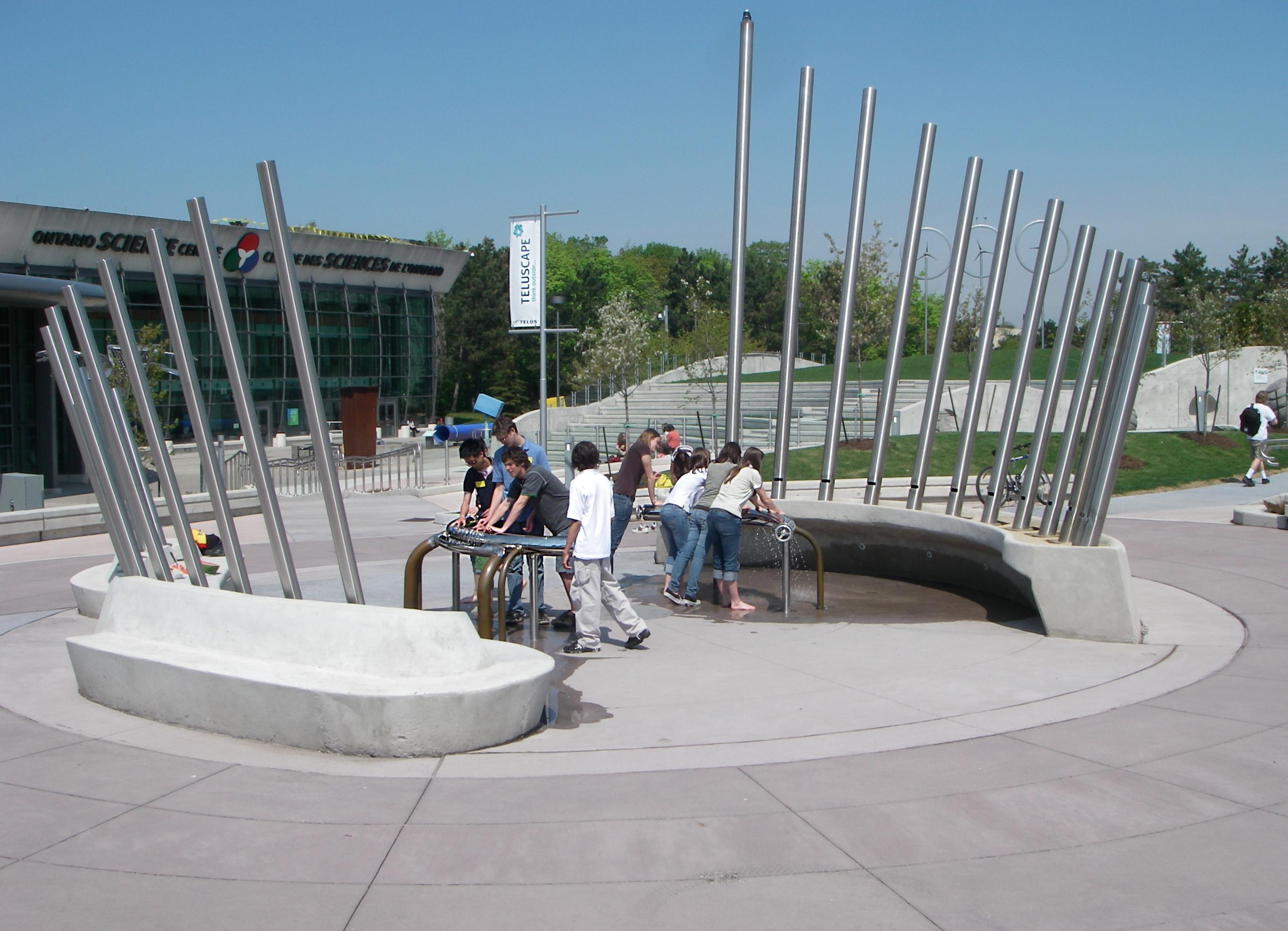 Picture of world's largest outdoor publically accessible hydraulophone installation, which is the main architectural centerpiece out in front of the Ontario Science Centre. The main entrance to Ontario Science Centre (walkway) passes between two organ consoles of the architectural centrepiece, which is a fountain that is a musical instrument.